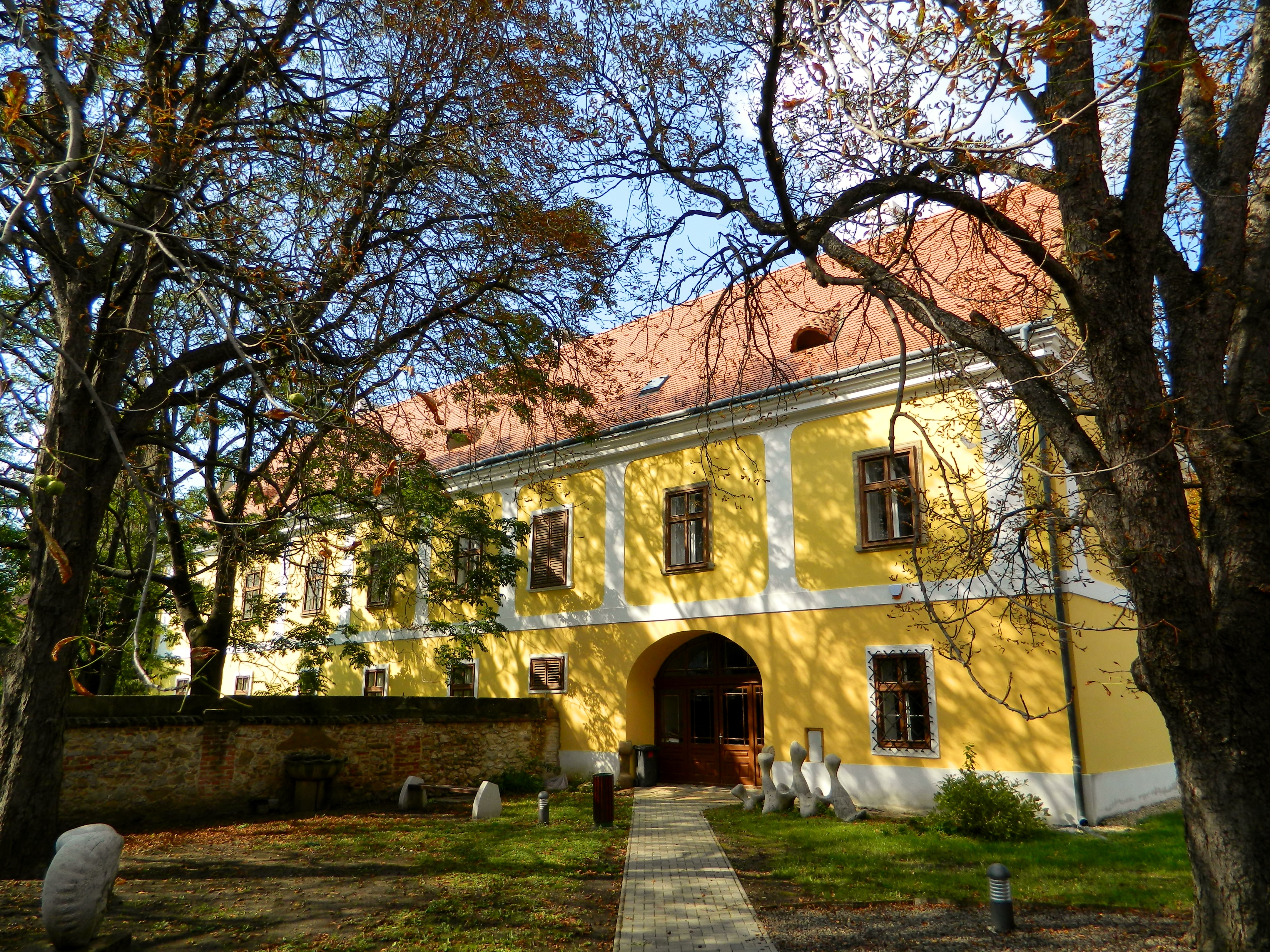 Kannonok house (18 century). The central building of Janus Pannonius Museum